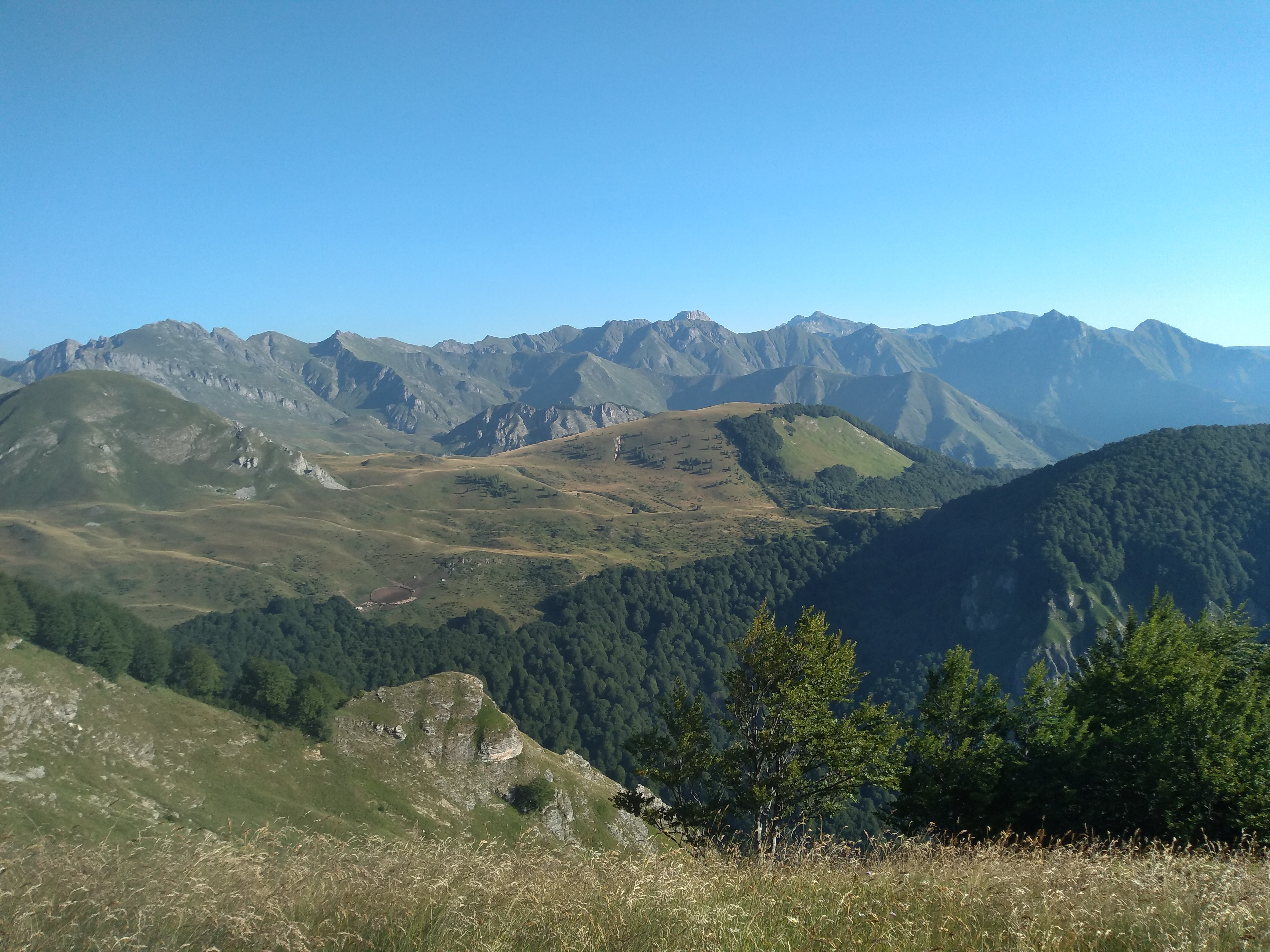 View of Korab Mountain, Macedonia